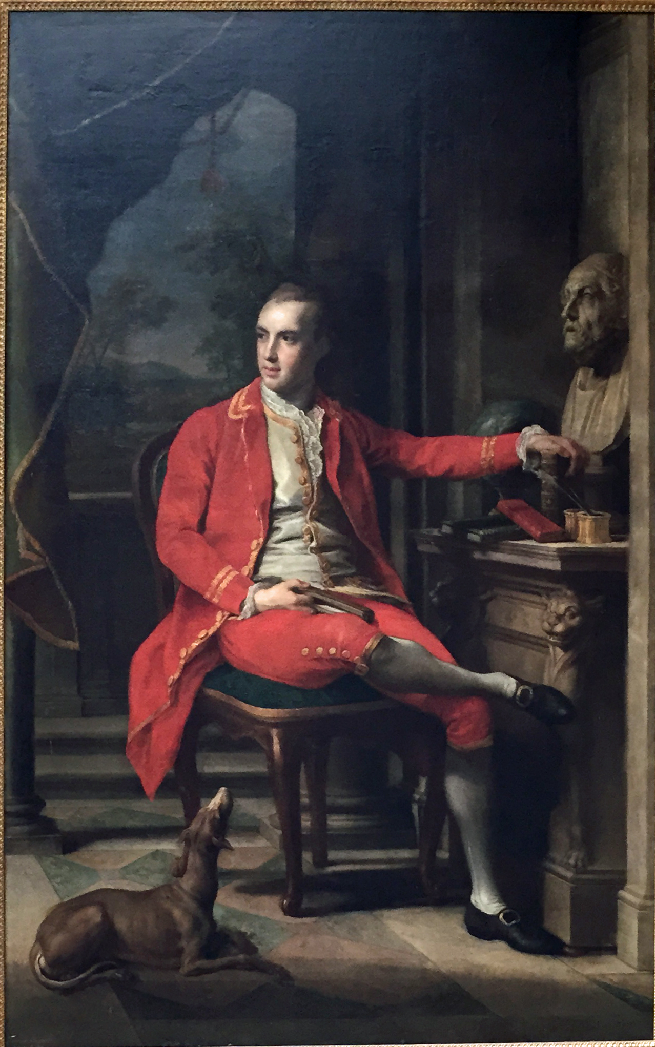 Estcourt was born 7 October 1748 and died 2 December 1818. He was MP for Cricklade from 1790 to 1806